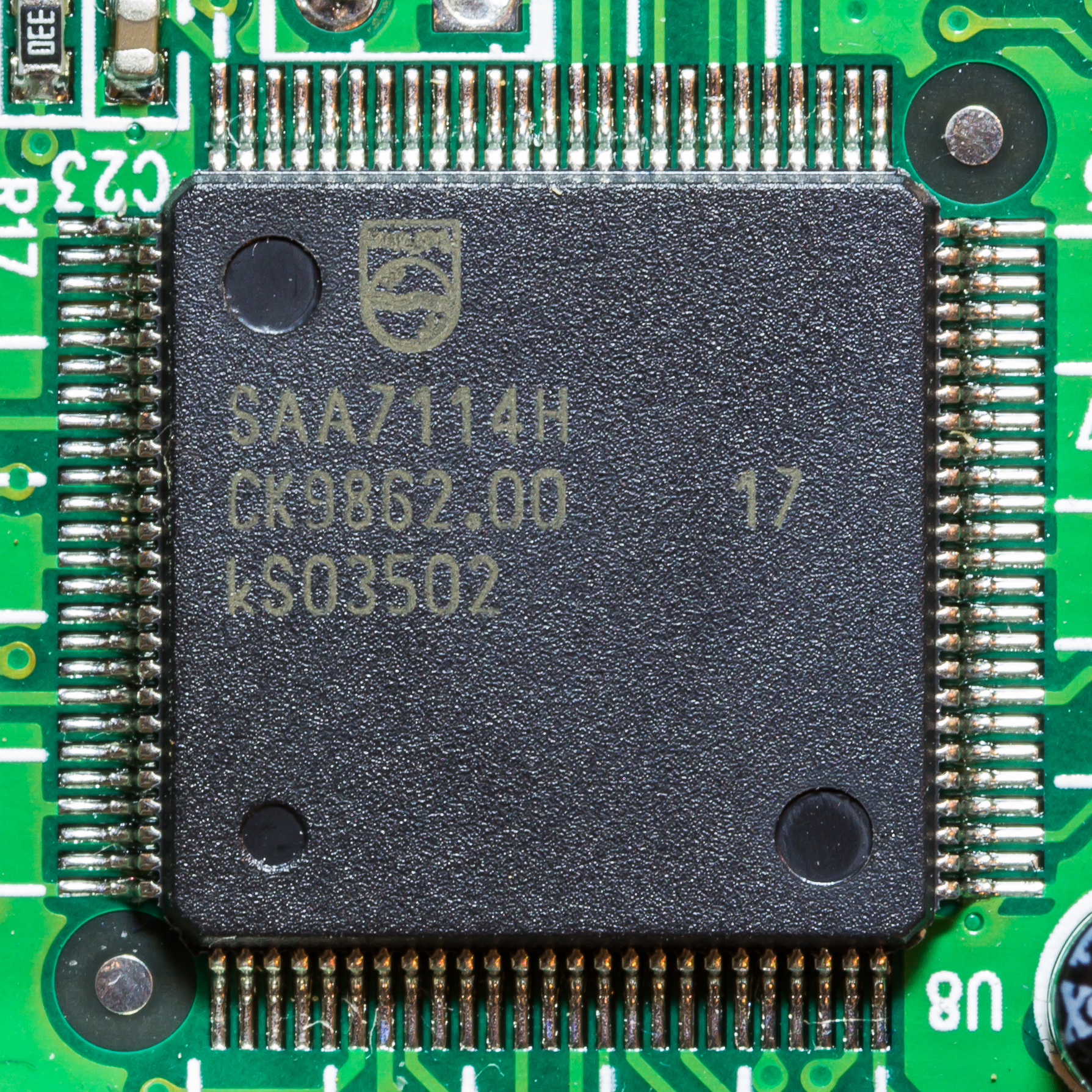 SAA7114H PAL/NTSC/SECAM video decoder by Philips. Part of a AVerMedia AVerTV Box5 Live